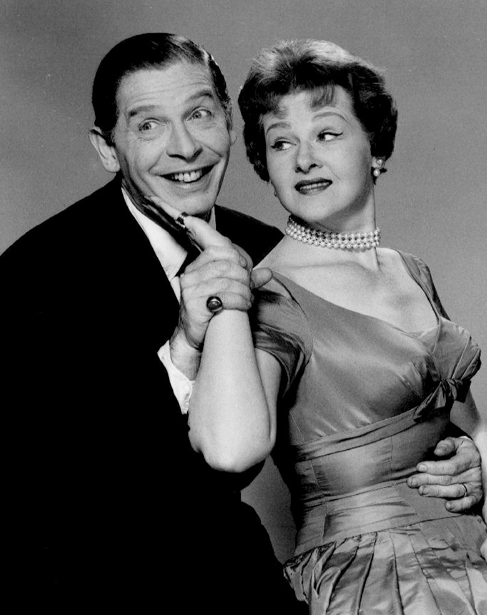 Photo of Milton Berle and Jo Stafford from the television program The Kraft Music Hall. Berle hosted the show from 1958 to 1959; he was replaced by Perry Como.